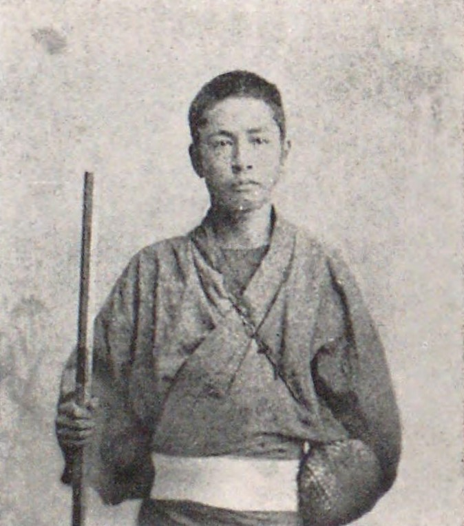 The photograph of Natsume Soseki for the memorial of climbing Mt. Fuji in 1891.